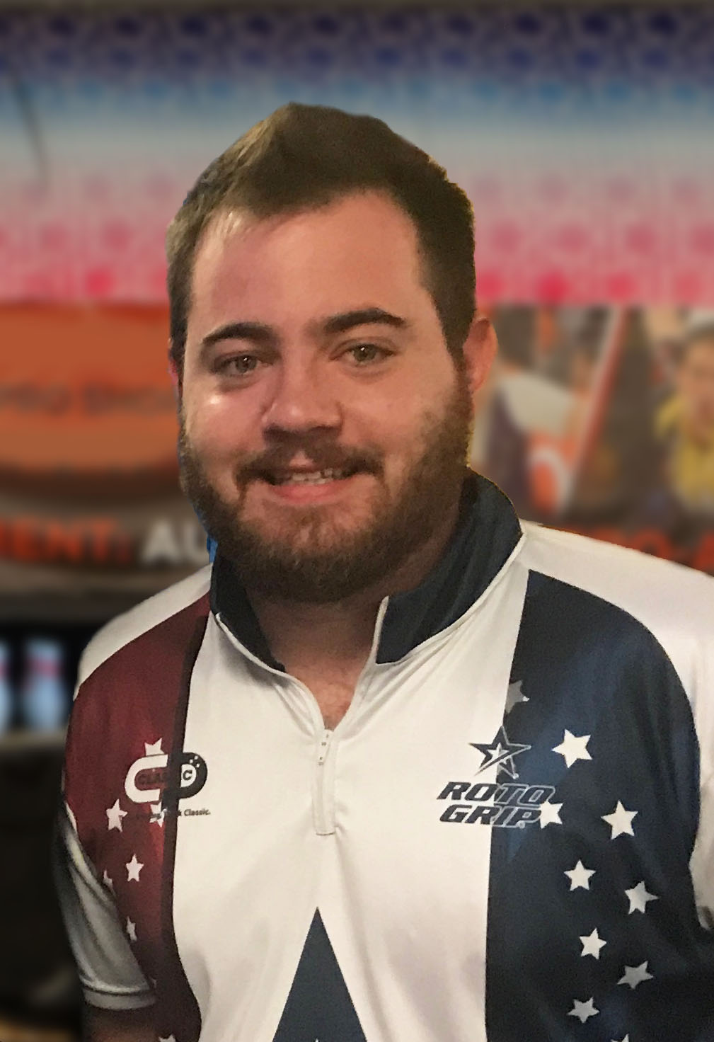 American ten-pin bowler Anthony Simonsen at a pro-am bowling event in Middletown, Delaware, U.S., on August 16, 2019. Distracting background was removed and replaced with bowling-alley background that was Gaussian-blurred and darkened in Photoshop.